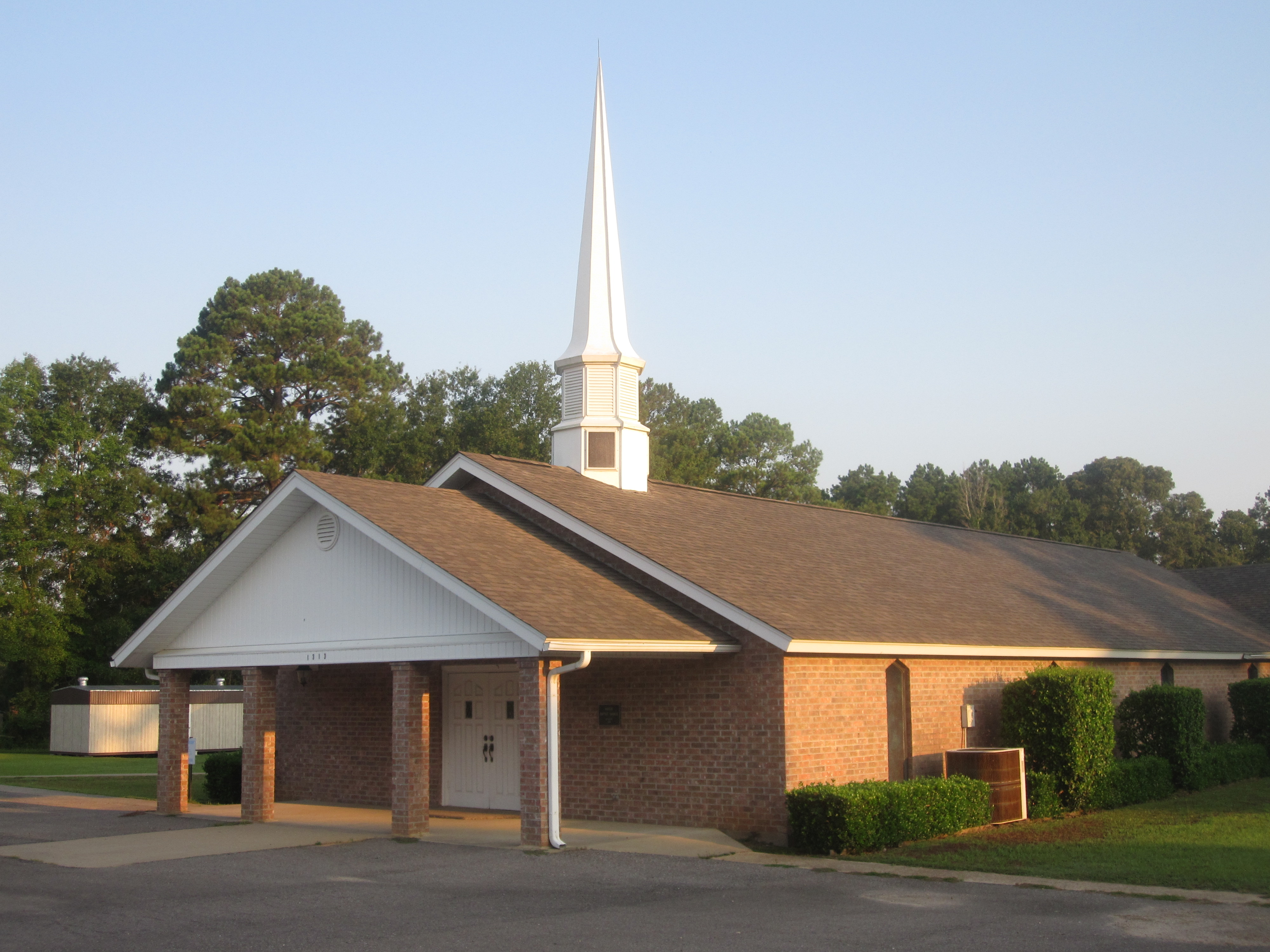 Revised photo of Hargis Baptist Church in Montgomery, LA